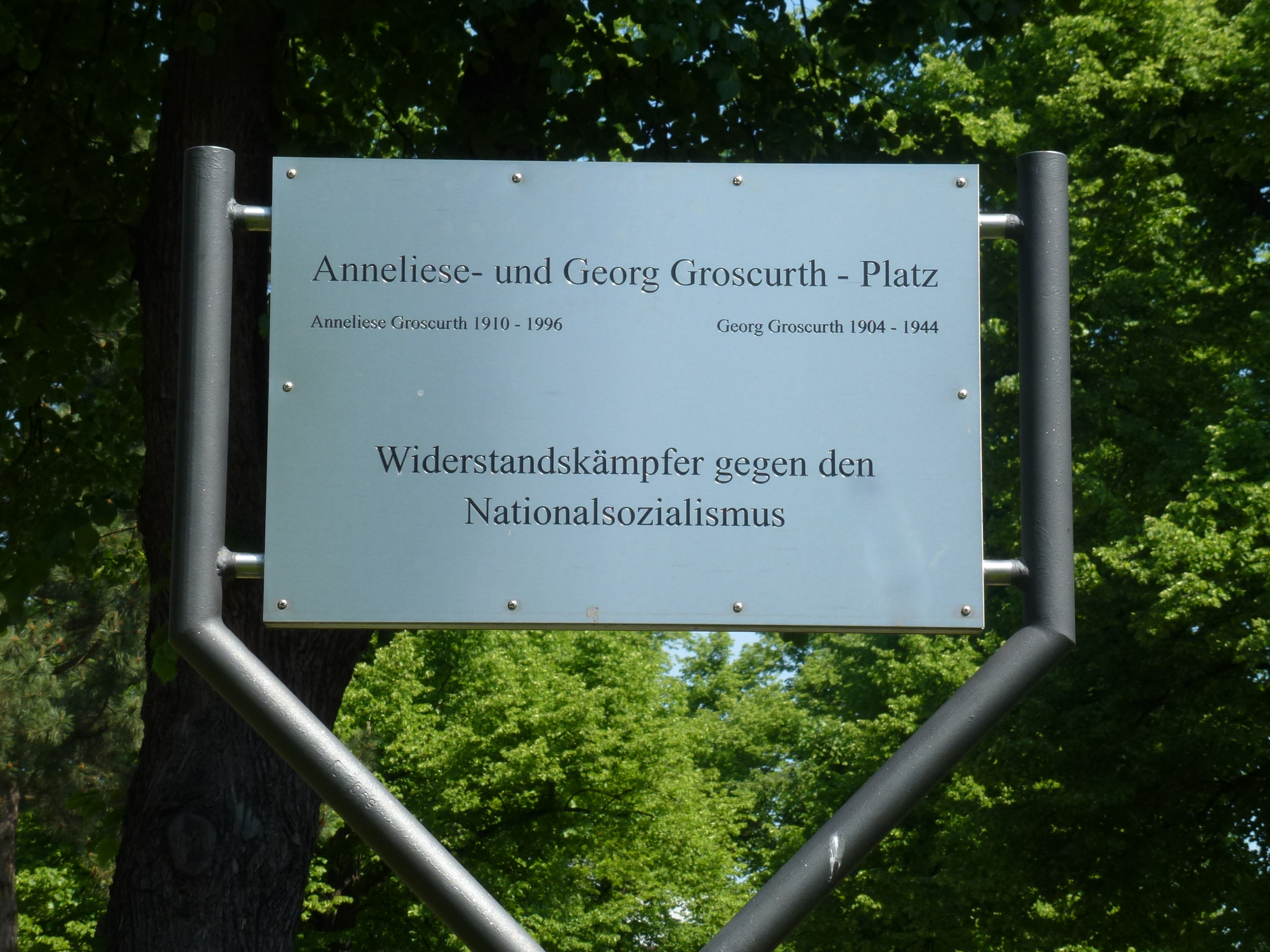 Berlin-Westend Anneliese-und-Georg-Groscurth-Platz